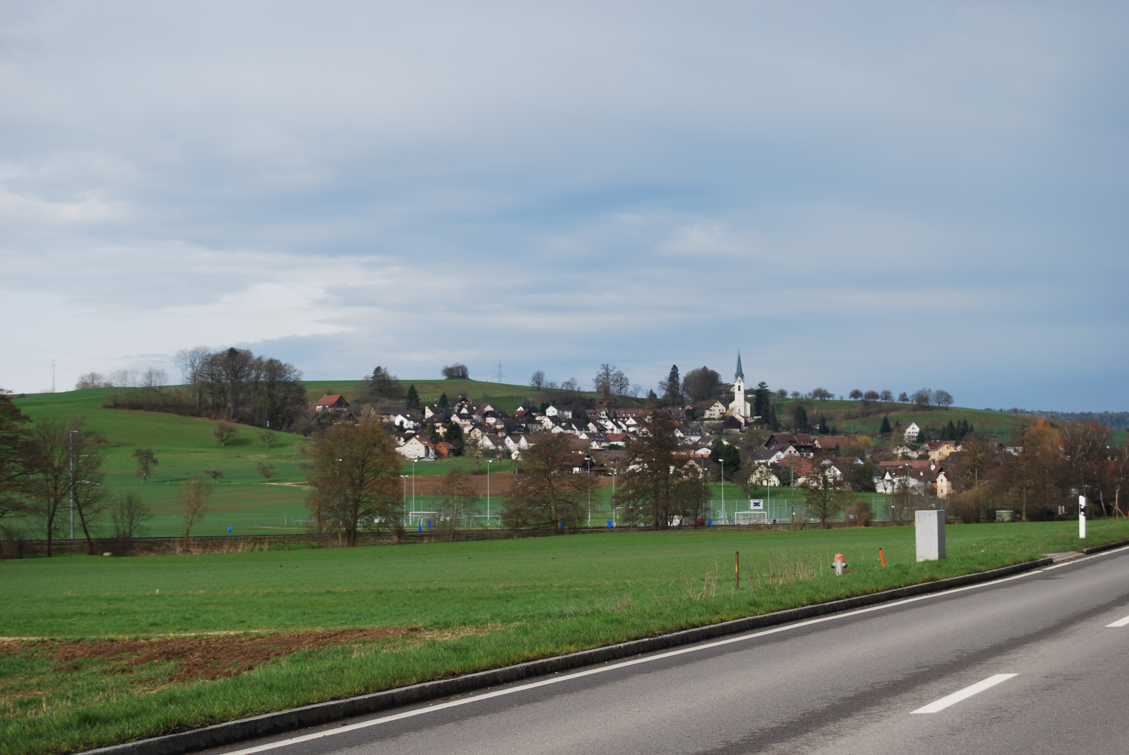 Panoramic view of Niederweningen, seen from main road 17, canton of Zürich, SwitzerlandEsperanto: Panorama vido de Niederweningen, vidita de la kantona ĉefvojo n-ro 17, Kantono Zuriko, Svislando